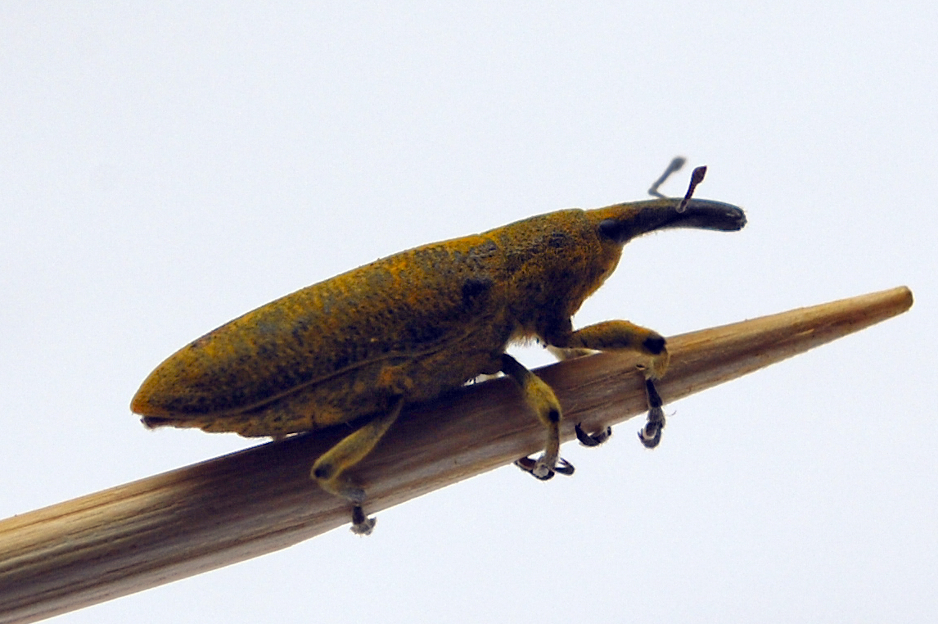 Lixus pulverulentus (Scopoli, 1763)